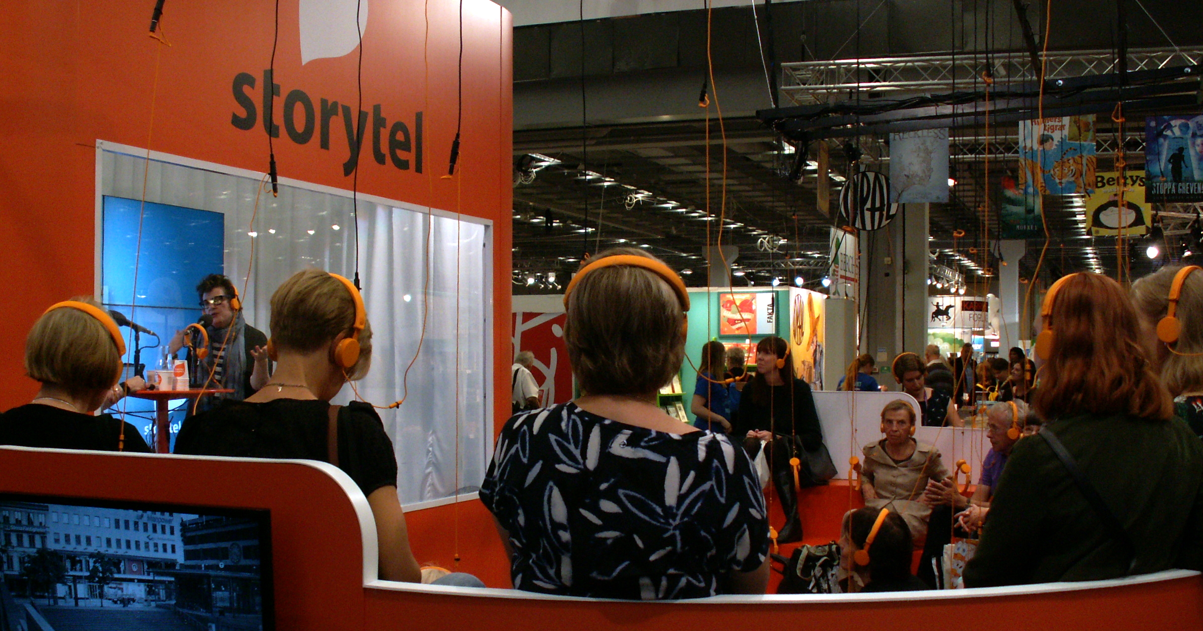 Meg Rosoff at Storytel, Göteborg Book Fair of 2016.